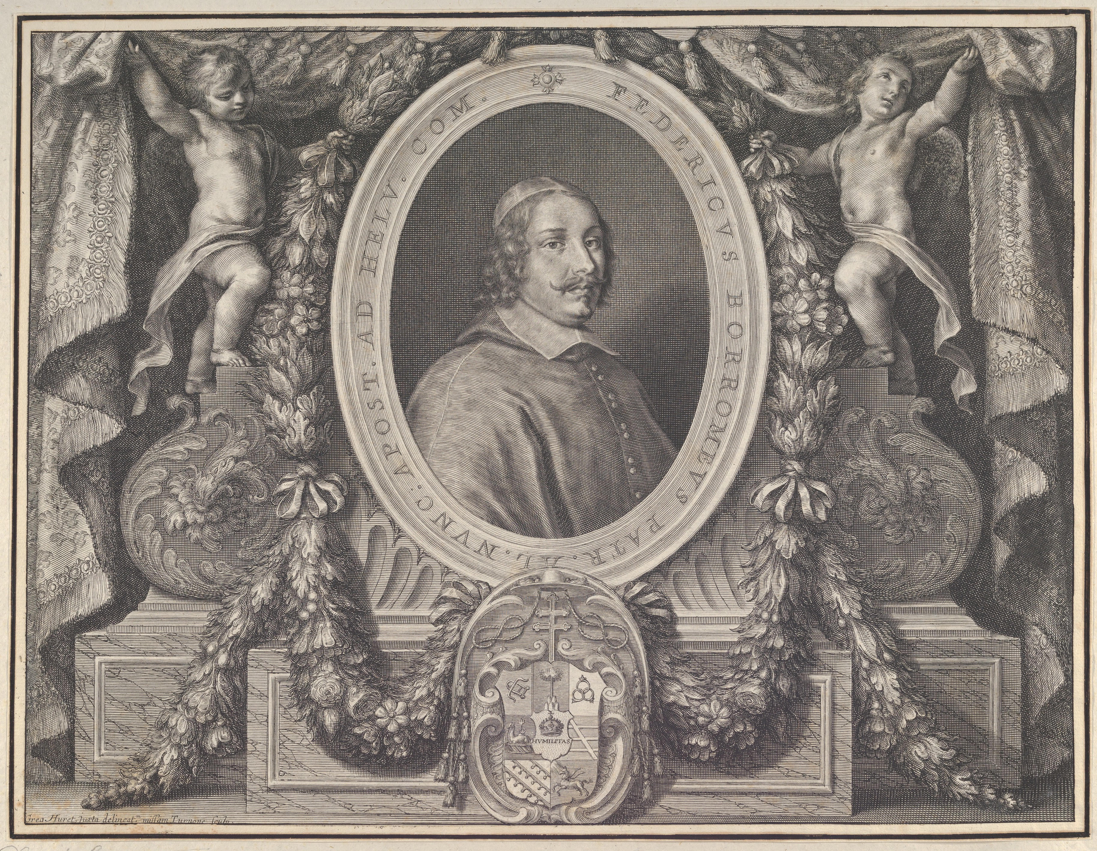 Print; Prints